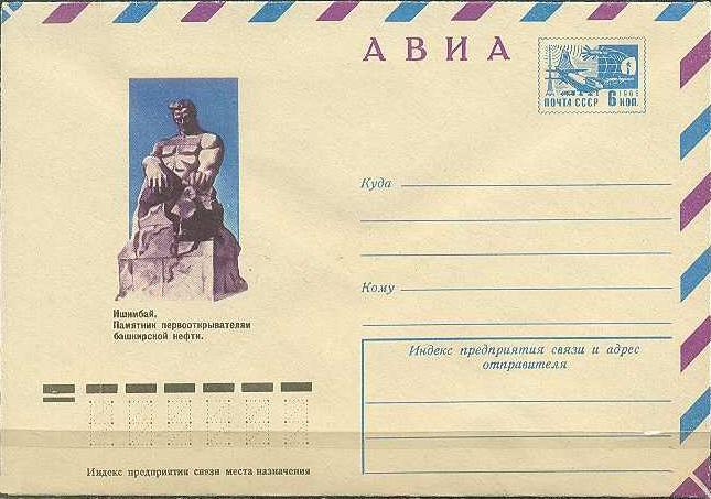 USSR 1974, 6 kopek airmail cover, depicting the monument of the Discovery of the Bashkir oil. Unused. Catalogue: Mi. LU188c or LU189b (latter one has an additional text on backflap: 'Best wishes...Send on time') Cover details (according Michel): Paper: light grey yellow Imprinted stamp: type as Watermark: none AVIA: type I Frame: type V, rhomboids only at top and right pointing to lower left. Zip code field: type III.A Backflap: Printer marking Printer: 3. Perm printing co.